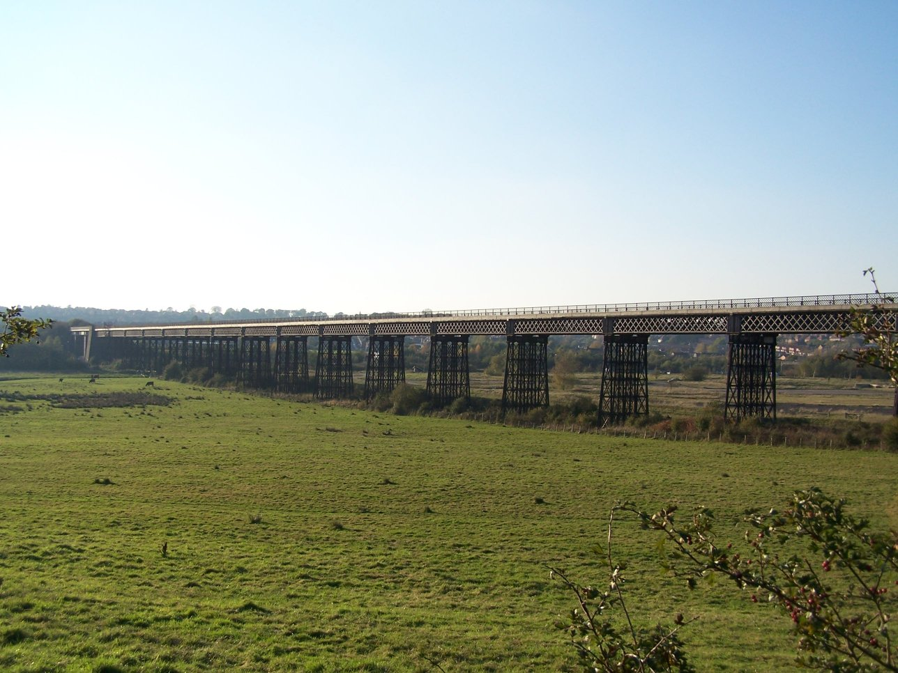 Author: Tina Cordon, Source: Own Picture, Tina Cordon (talk) 12:15, 22 February 2009 (UTC)